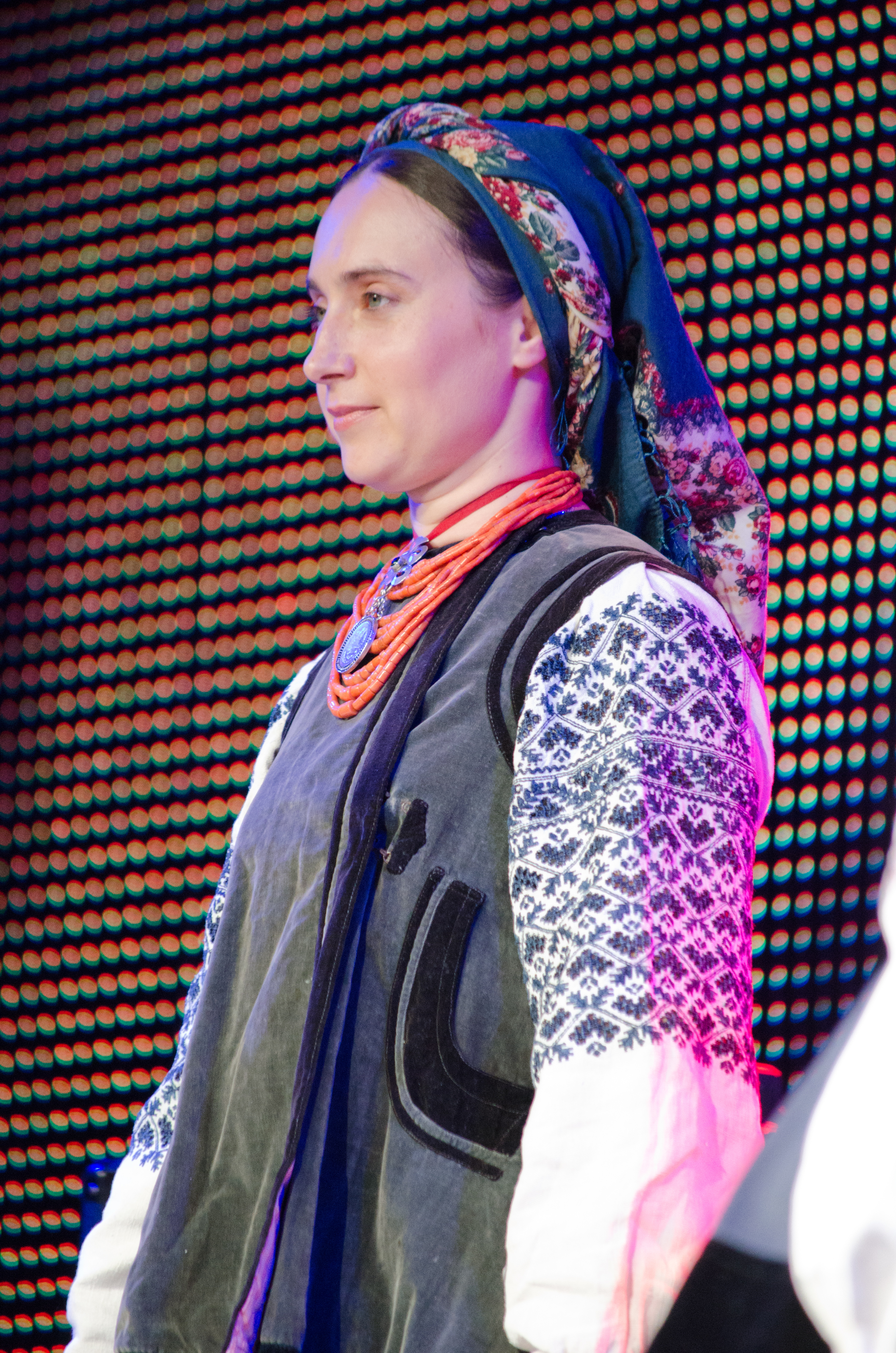 Koronatsiya Slova 2013 literature awards ceremony, Kiev, Ukraine